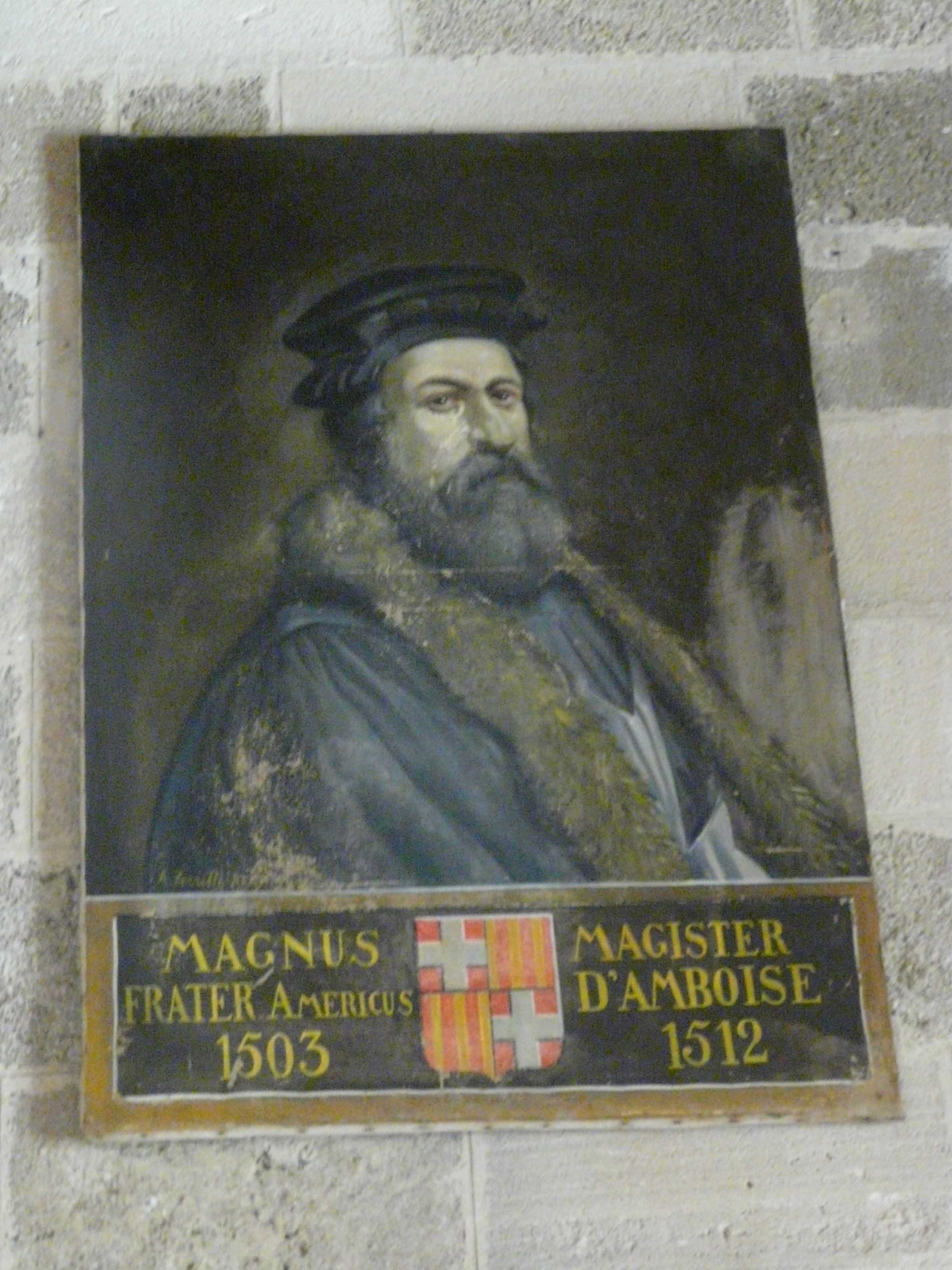 Palace of the Grand Master of the Knights of Rhodes